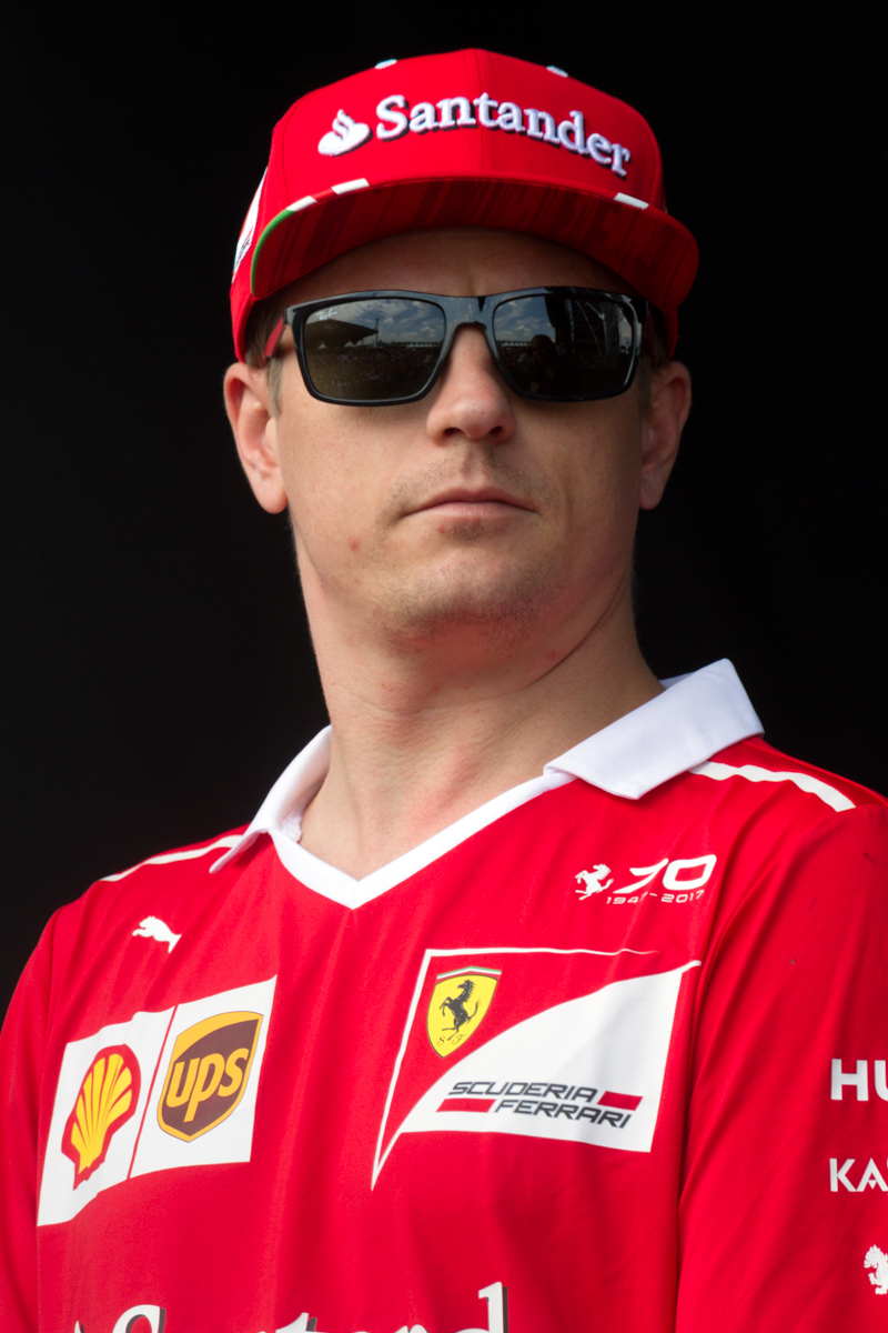 Formula One 2017 Round 15 Malaysian GP: Kimi Räikkönen (Ferrari) at the fan meeting